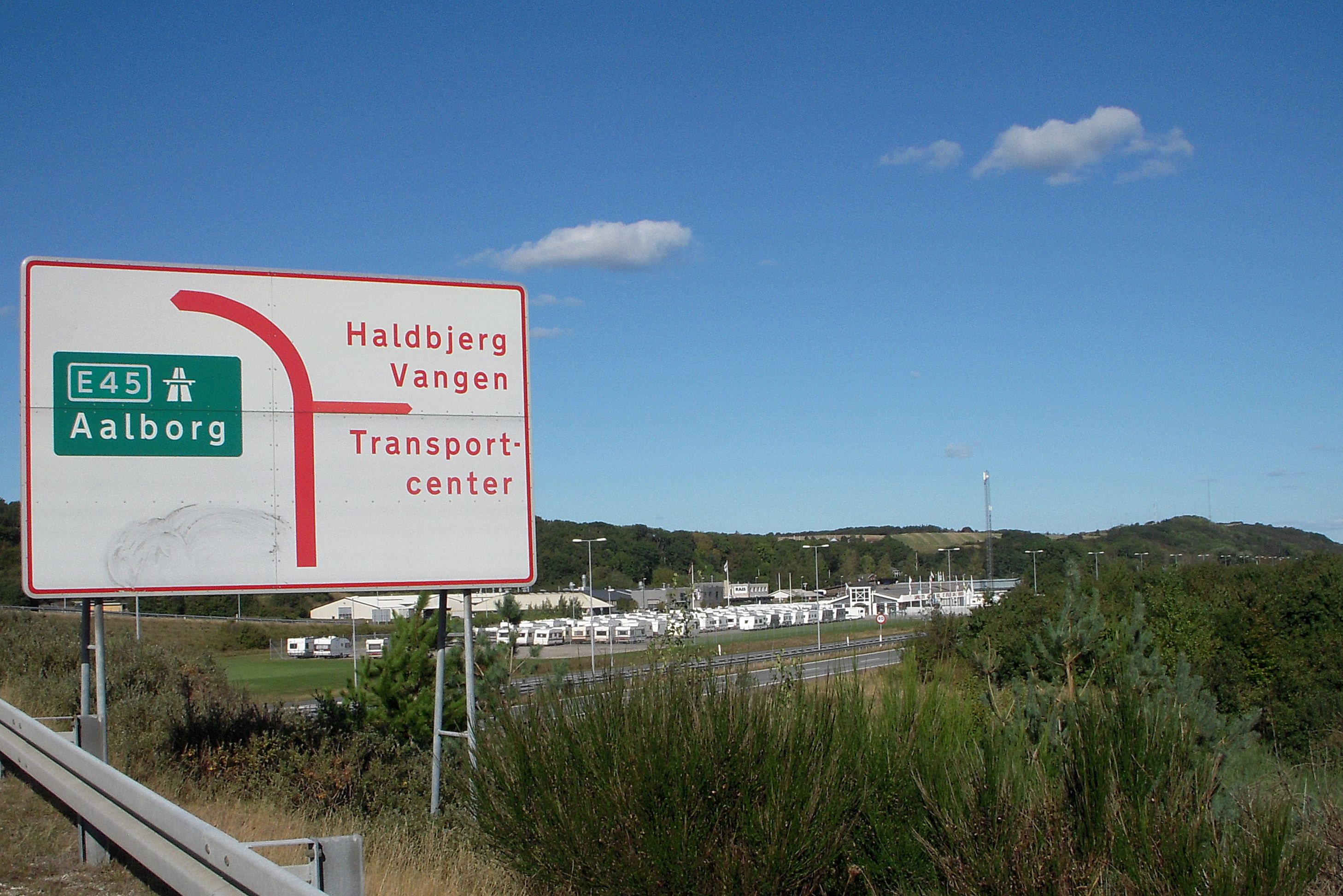 The motorway E45 ends here at the small villages Vangen and Haldbjerg. This is near Frederikshavn, Denmark